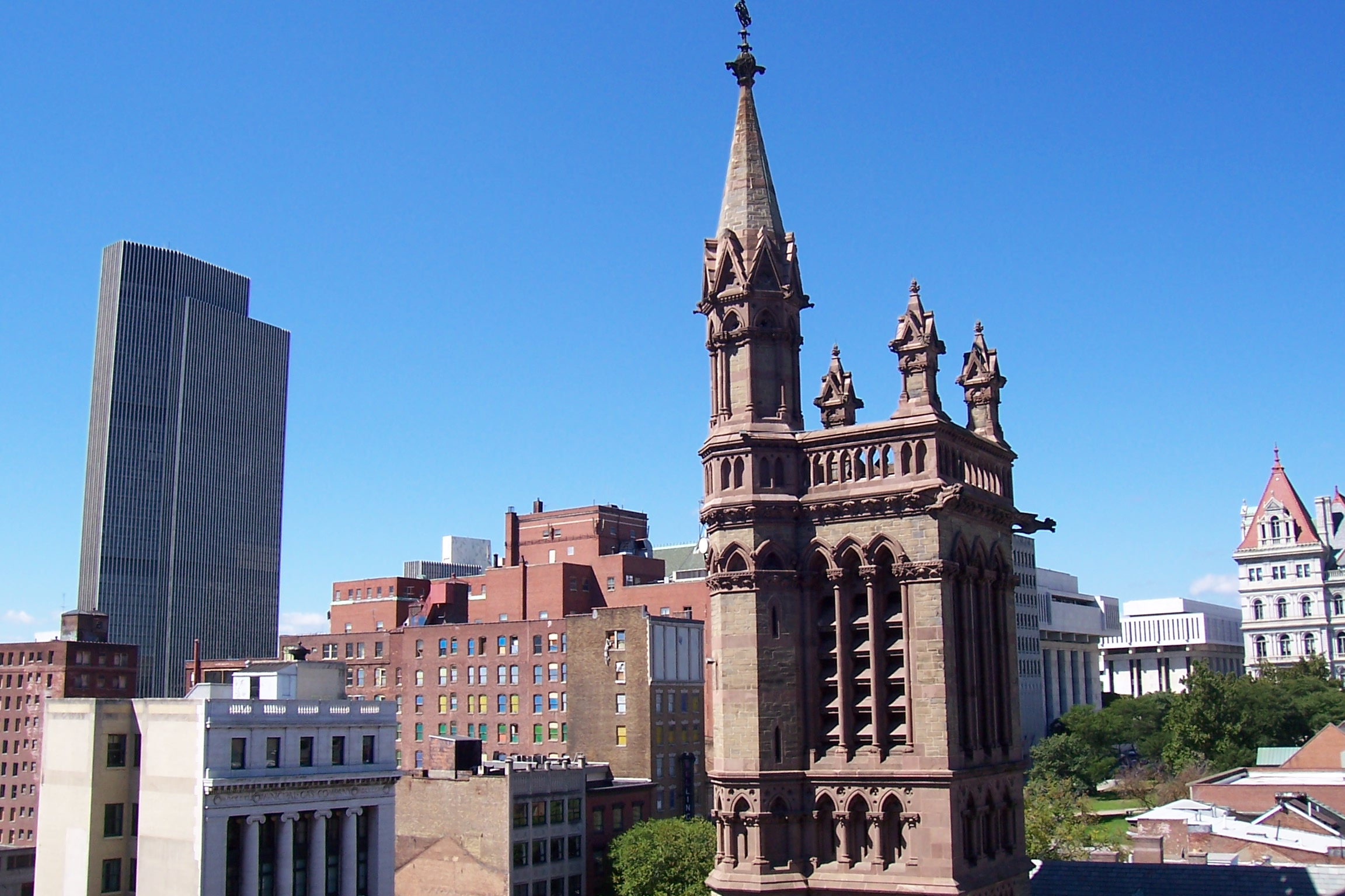 St. Peter's Church in Albany, New York.